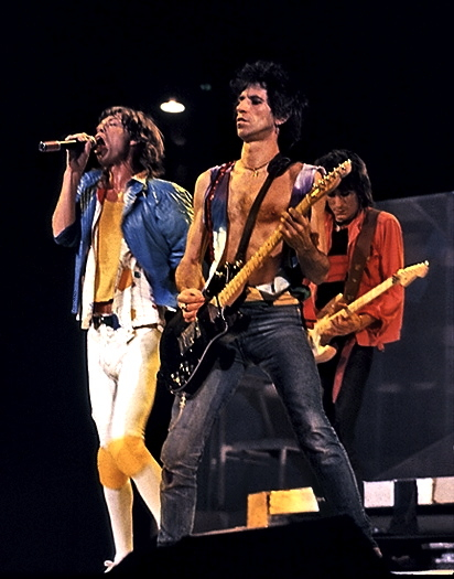 Keith Richards (center), Mick Jagger (left) and Ron Wood (right) from The Rolling Stones; Rolling Stones concert on December 11, 1981, Rupp Arena, Lexington Kentucky